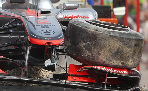 Picture in blog post